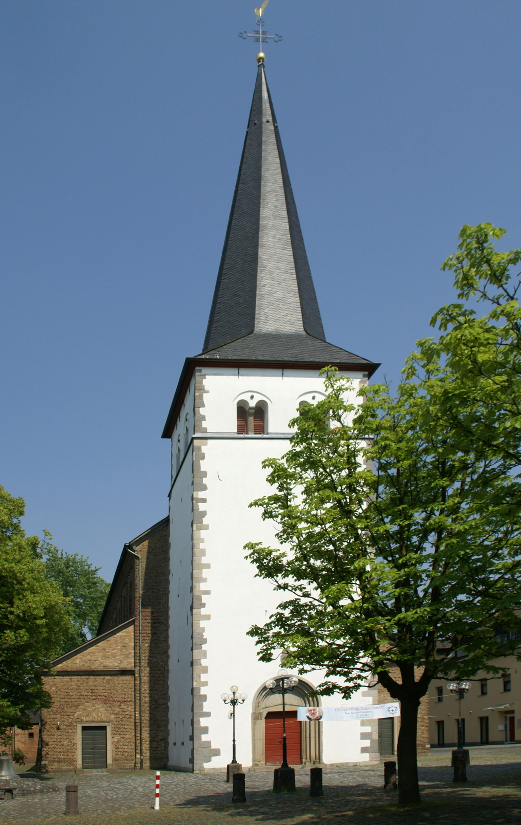 Catholic parish church of St. Margareta in Stieldorf